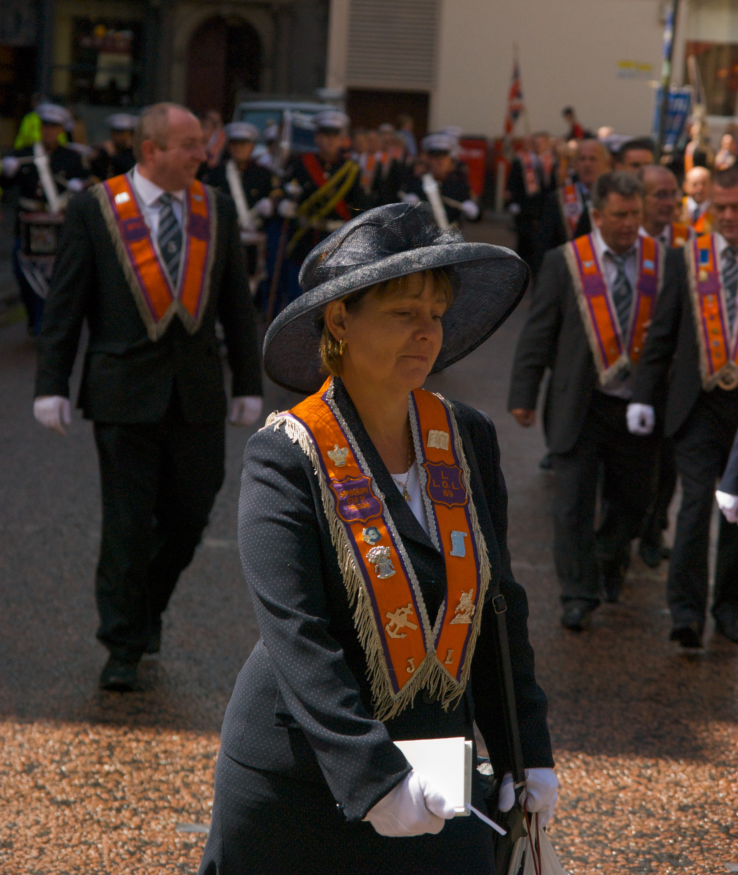 An Orange Walker in Glasgow, Scotland.